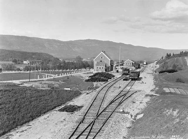 Bø railway station on Sørlandsbanen, Telemark, Norway.